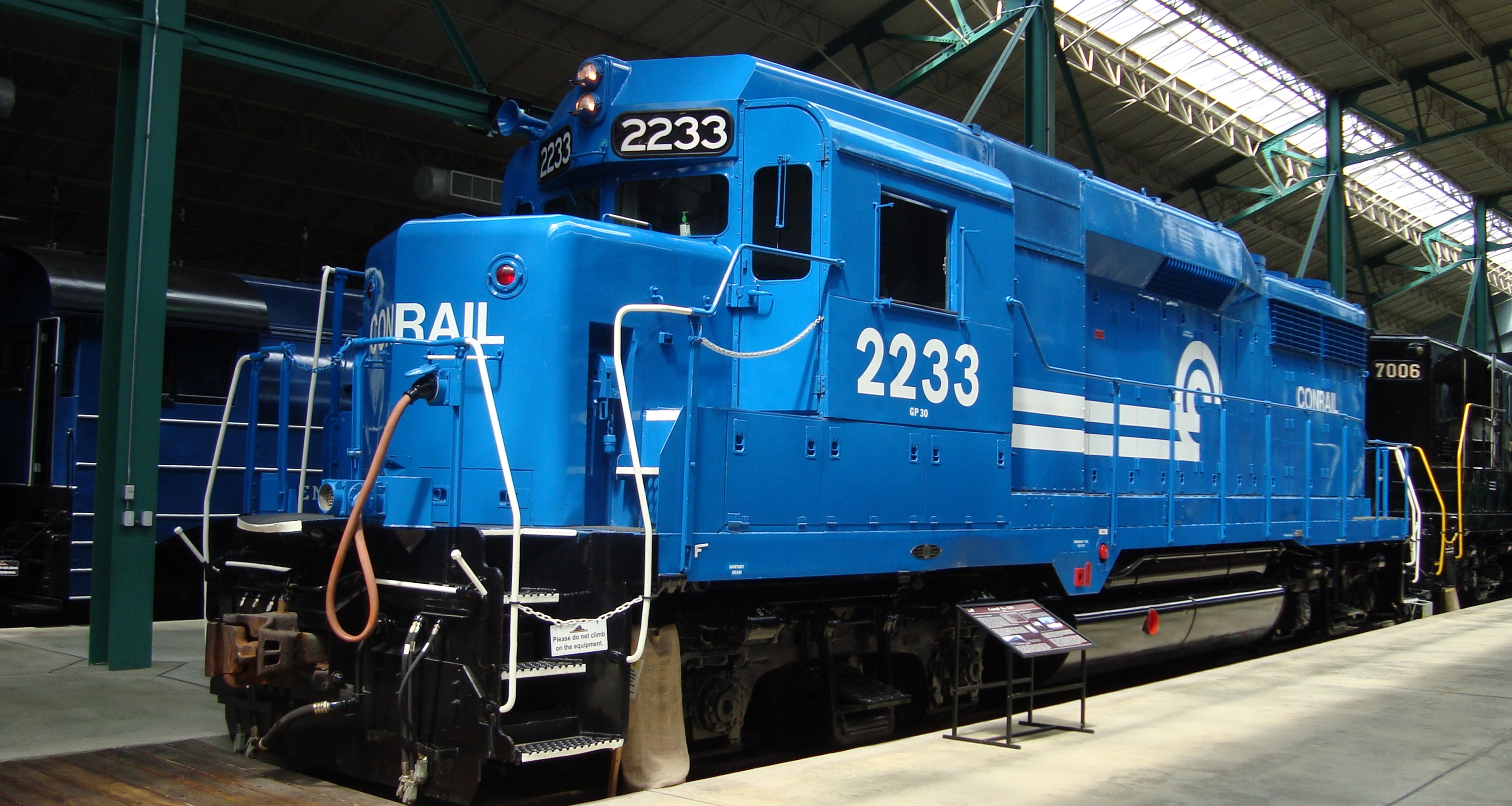 Conrail Geep of Pennsy heritage.